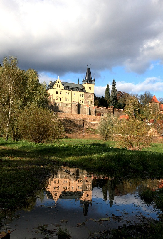 Zruc nad Sazavou - castle. The town in mid Bohemia, close to Sazava river, Czech Republic